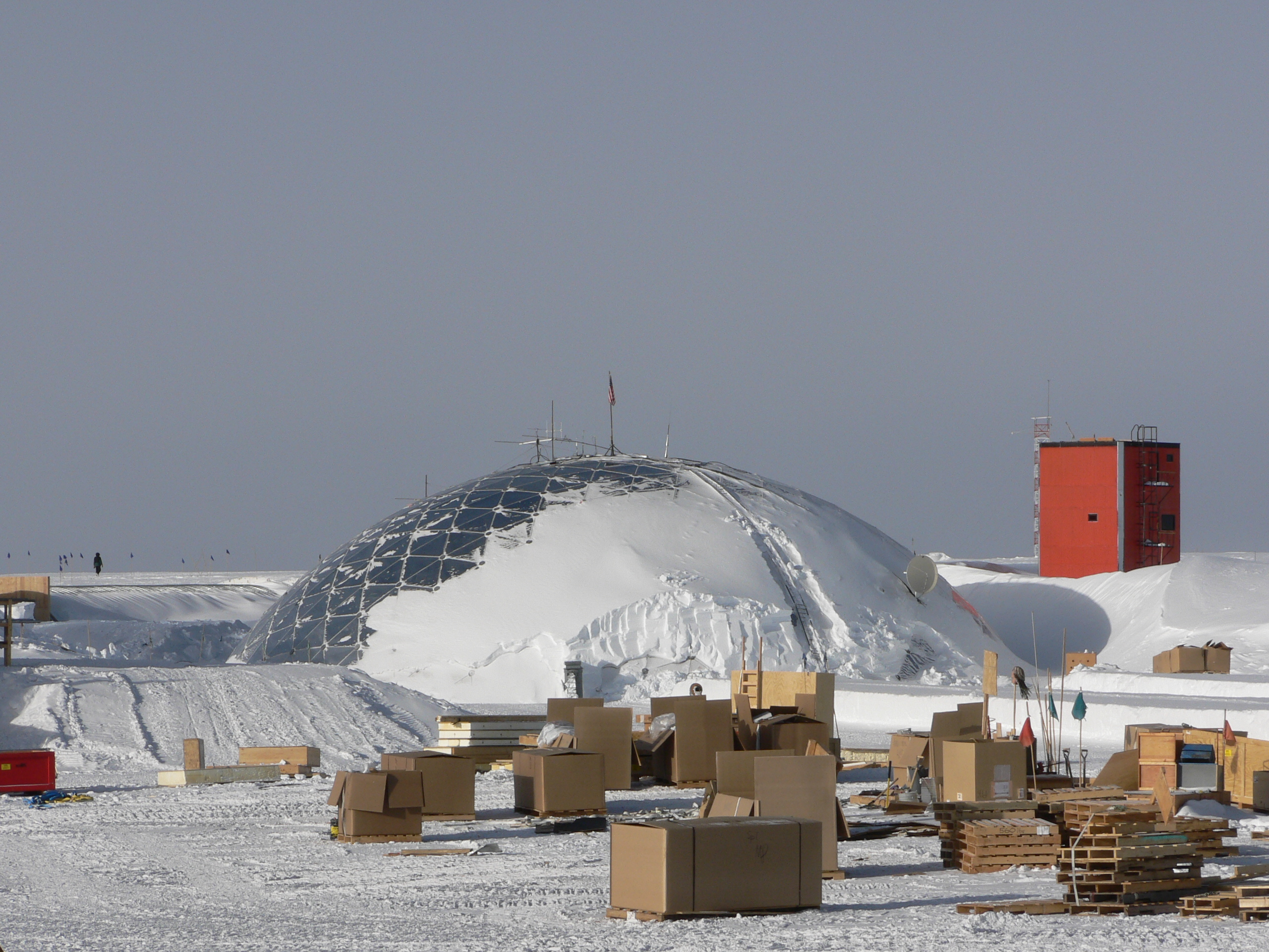 Amundsen-Scott South Pole Station